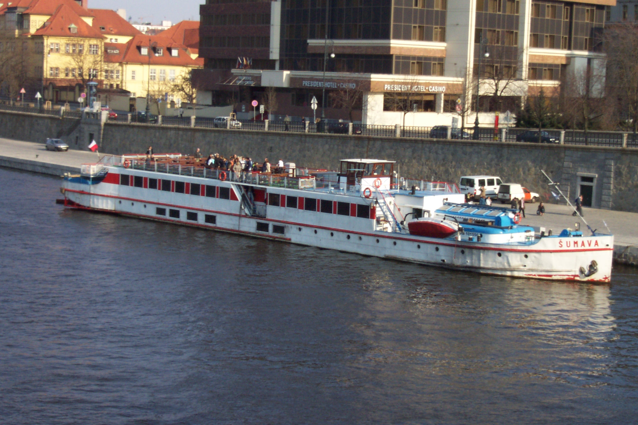 Ship on Vltava under the Letná hill